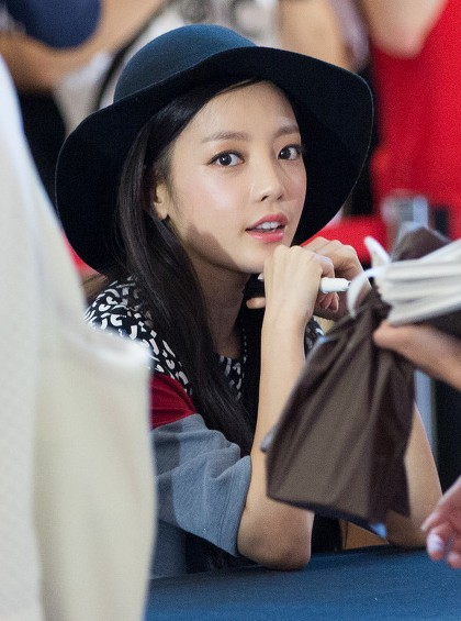 Goo Hara in August 2014